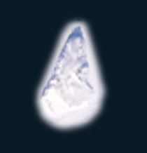 Vilkitsky - Landsat